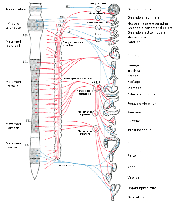 Italian version of File:Gray839.png. This vector image was created with Inkscape.